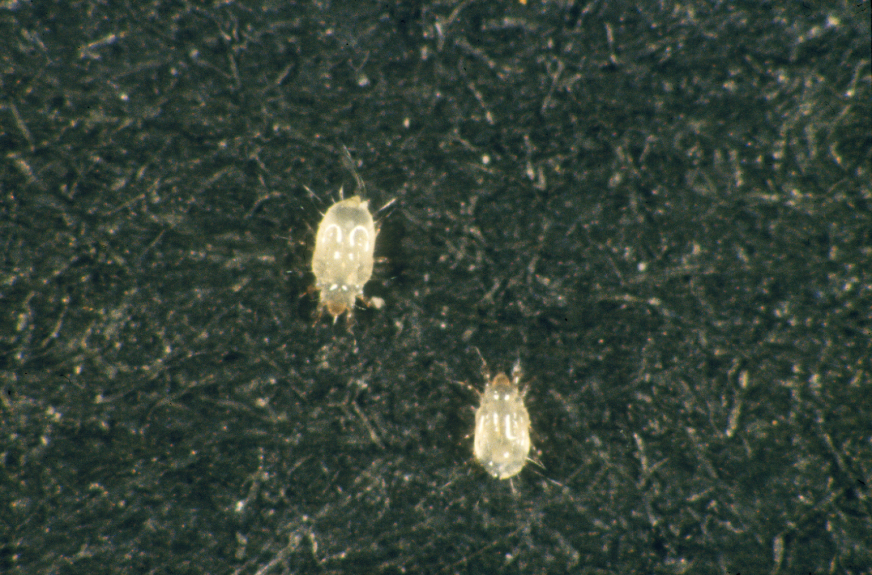 This insect is a pest of stored grain.